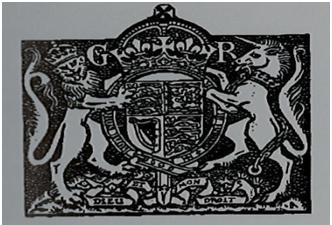 The logo of the Bankruptcy Department of the Straits Settlements, which was essentially the Royal coat of arms of the United Kingdom. The letters GV and R stand for Georgius V Rex (King George), which refers to George V who was monarch of the United Kingdom from 6 May 1910 to 20 January 1936.